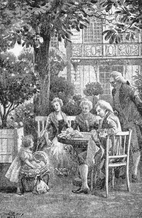 An illustration from Jules Verne's novel "The Secret of William Storitz" (written in 1898, firts published in 1910 after his death with changes made by his son Michel) drawn by George Roux.